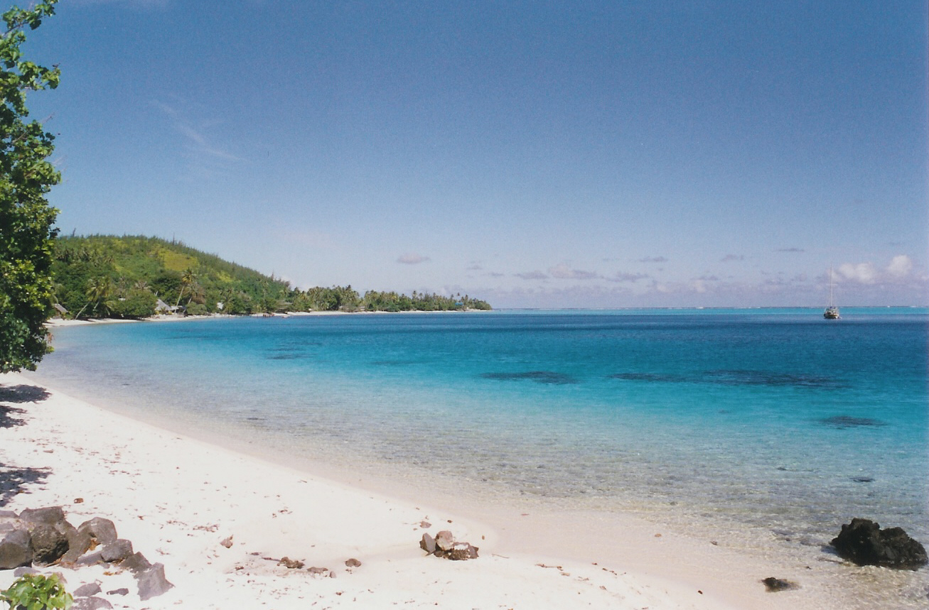 Avea beach on Huahine Iti, Society Islands, French Polynesia